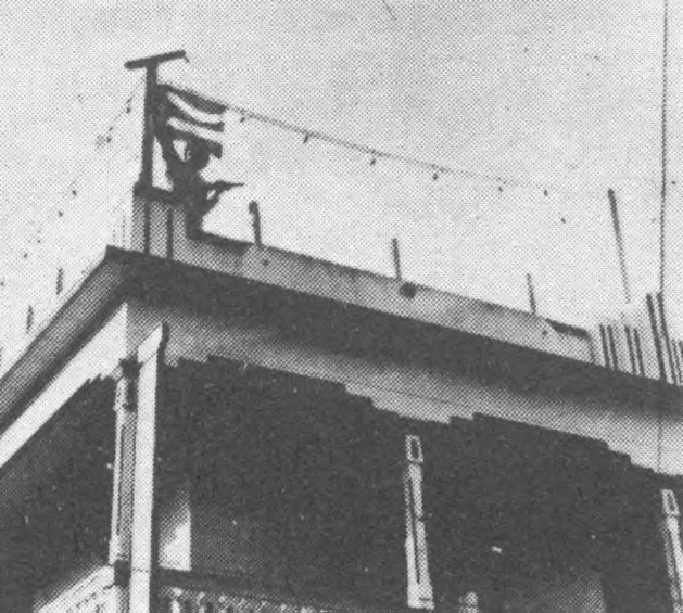 Jayuya Uprising — removal of the Puerto Rican Flag by U.S. Military in Jayuya, Puerto Rico, during the Jayuya Uprising in 1950.